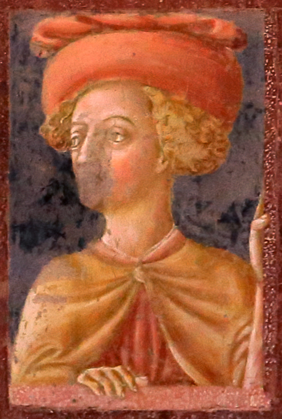 Collegiata (Castiglione Olona) - Frescos by Vecchietta